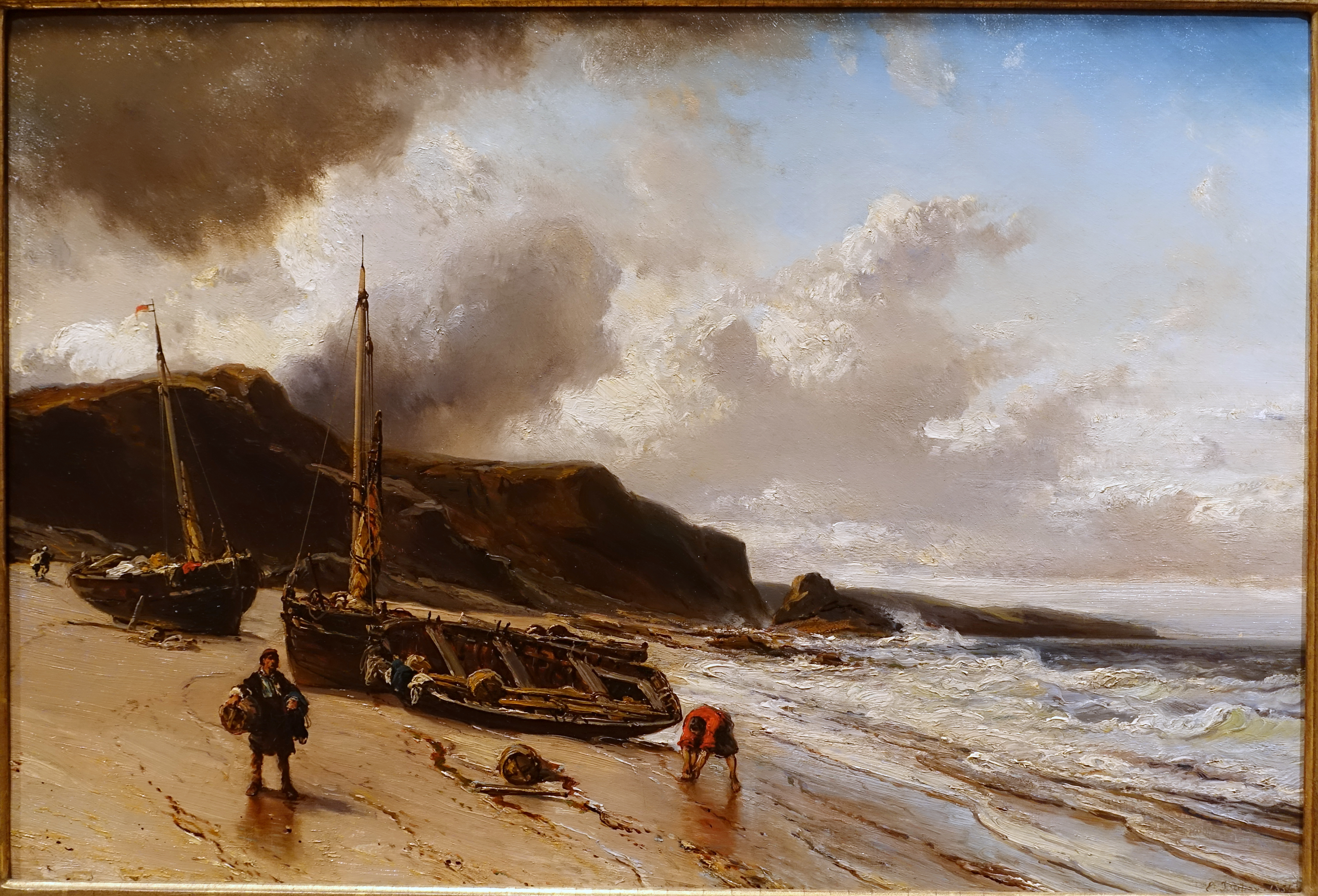 Exhibit in the Middlebury College Museum of Art - Middlebury, Vermont, USA.